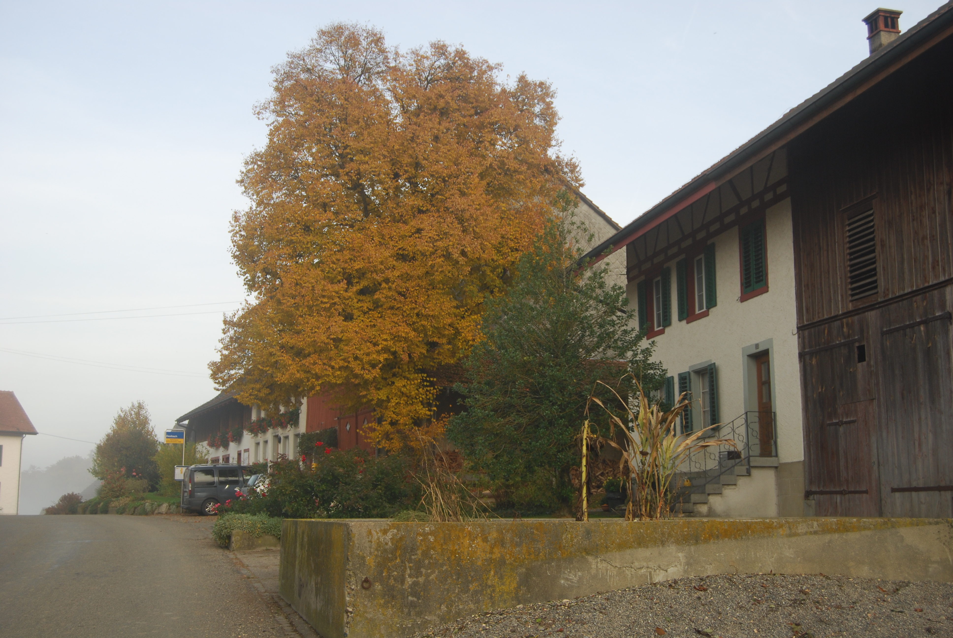 Desibach, municipality of Buch am Irchel, canton of Zürich, SwitzerlandEsperanto: Desibach, komunumo Buch ĉe Irchel, Kantono Zuriko, Svislando